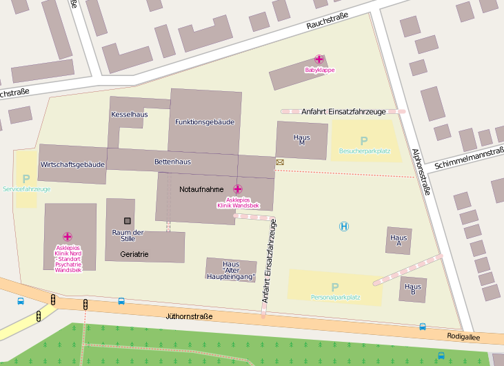 Map of Hamburg, Asklepios Klinik Wandsbek. This map may be incomplete, and may contain errors. Don't rely solely on it for navigation.